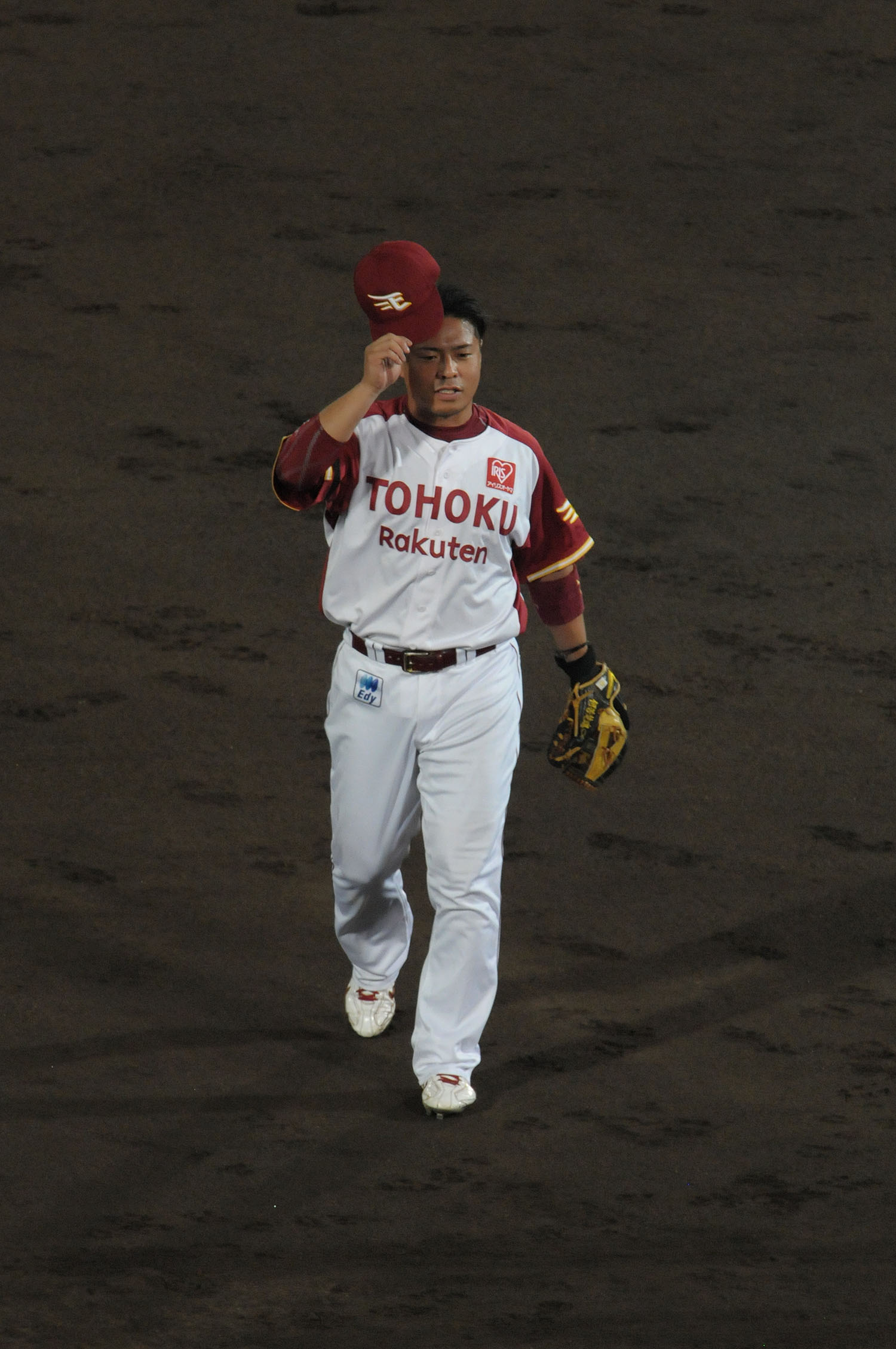 Akinori Iwamura, infielder of the Tohoku Rakuten Golden Eagles, at Akita Prefectural Baseball Stadium.